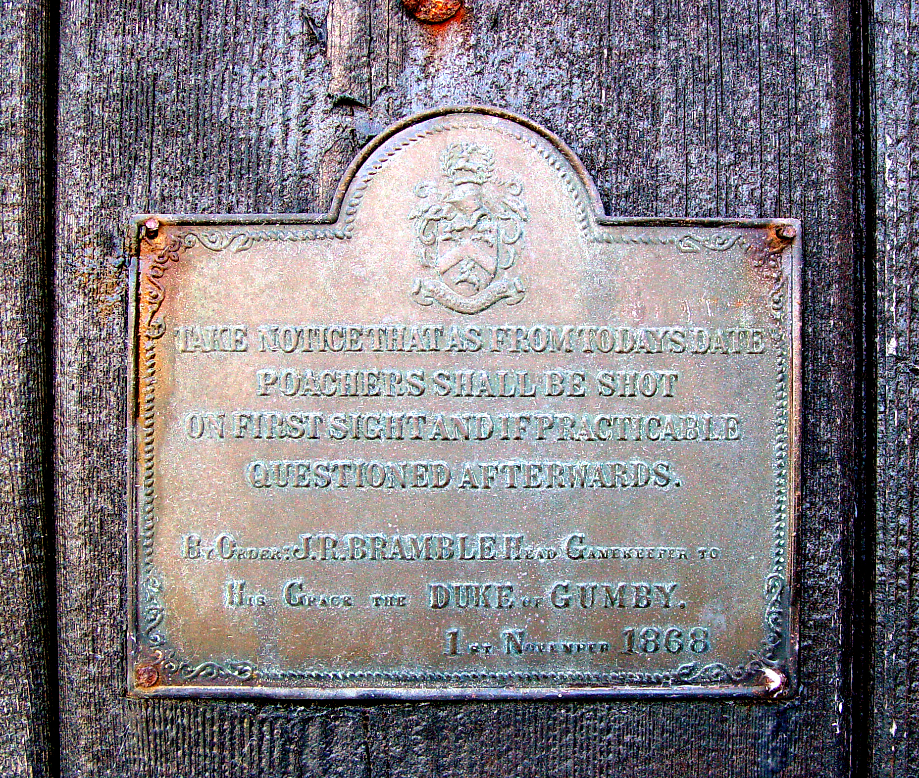 Brass Plaque on door at Tremedda farm, Zennor, Cornwall, England. It reads: TAKE NOTICE THAT AS FROM TODAYS DATE POACHERS SHALL BE SHOT ON FIRST SIGHT AND IF PRACTICABLE QUESTIONED AFTERWARDS. BY ORDER J.R. BRAMBLE HEAD GAMEKEEPER TO HIS GRACE THE DUKE OF GUMBY 1ST NOVEMBER 1868. Although the Duke of Gumby is probably a fictitious entity since there is no accessible record of him, the plaque may have had some deterrent effect.